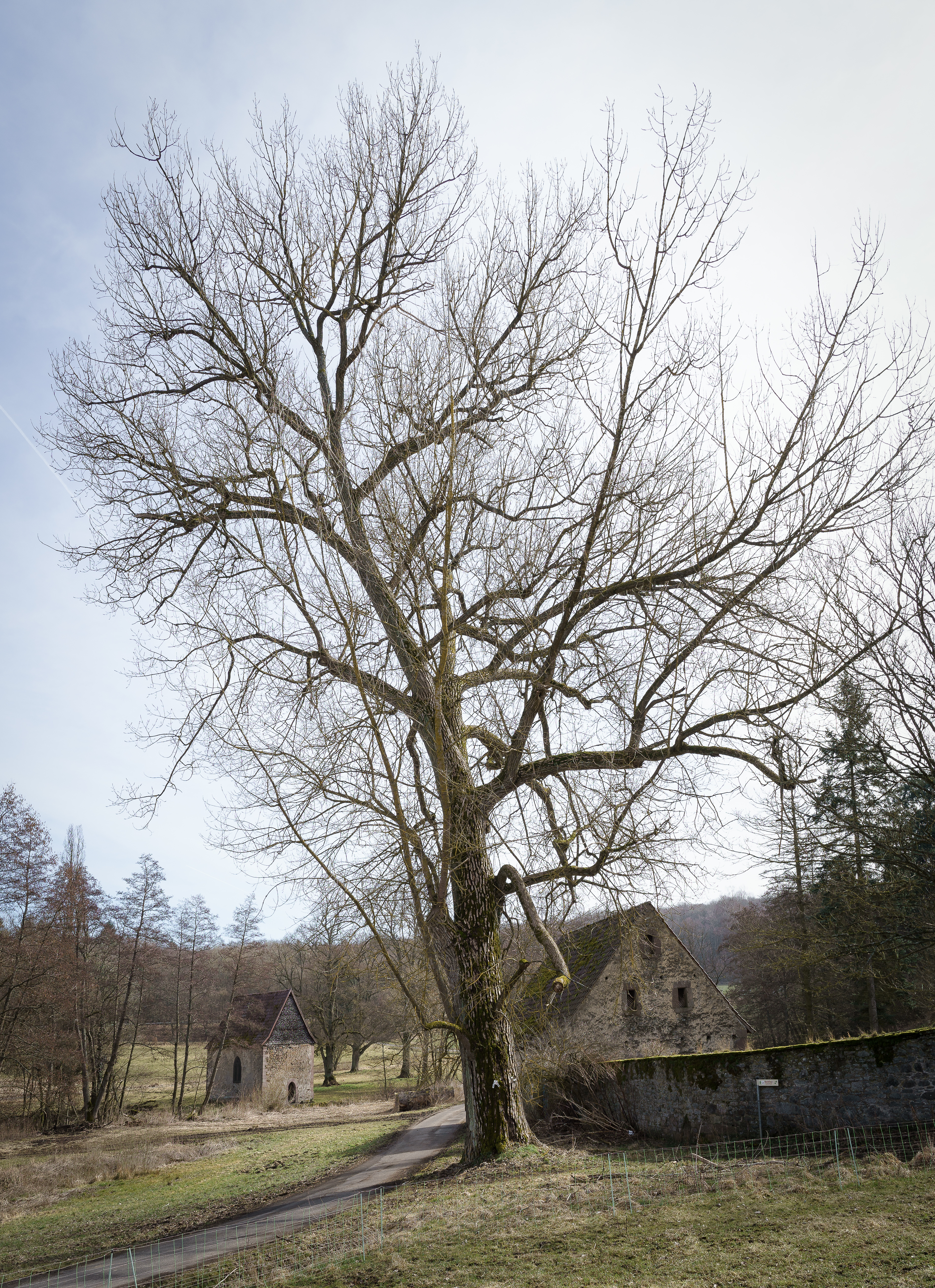 Black poplar (populus × canadensis) in the park of Eisenbach Castle near Lauterbach, Hesse - monumental tree